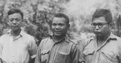 During the three-party unification in 1952, Pakokku District - From left to right - Bo Htun Lwin, Leader of the People's Liberation Army; Thakin Than Tun, Chairman of the Communist Party of Burma; Thakin Soe, Secretary General of the Communist Party (Burma) မြန်မာဘာသာ: ဝဲမှယာ − ၁၉၅၂ ခုနှစ် ပခုက္ကူခရိုင် ပုံတောင်ပုံညာ ဒေသတွင် သုံးပါတီ ညီညွတ်ရေး ပြုလုပ်ခဲ့စဉ်က တွေ့ရသည့် ပြည်သူ့ရဲဘော် ဥက္ကဋ္ဌ ဗိုလ်ထွန်းလင်း၊ ဗမာပြည် ကွန်မြူနစ်ပါတီ ဥက္ကဋ္ဌ သခင်သန်းထွန်း၊ ကွန်မြူနစ်ပါတီ (ဗမာပြည်) အထွေထွေအတွင်းရေးမှူး သခင်စိုး (ဓာတ်ပုံ - ပြည်သူ့အာဏာ ဂျာနယ်)